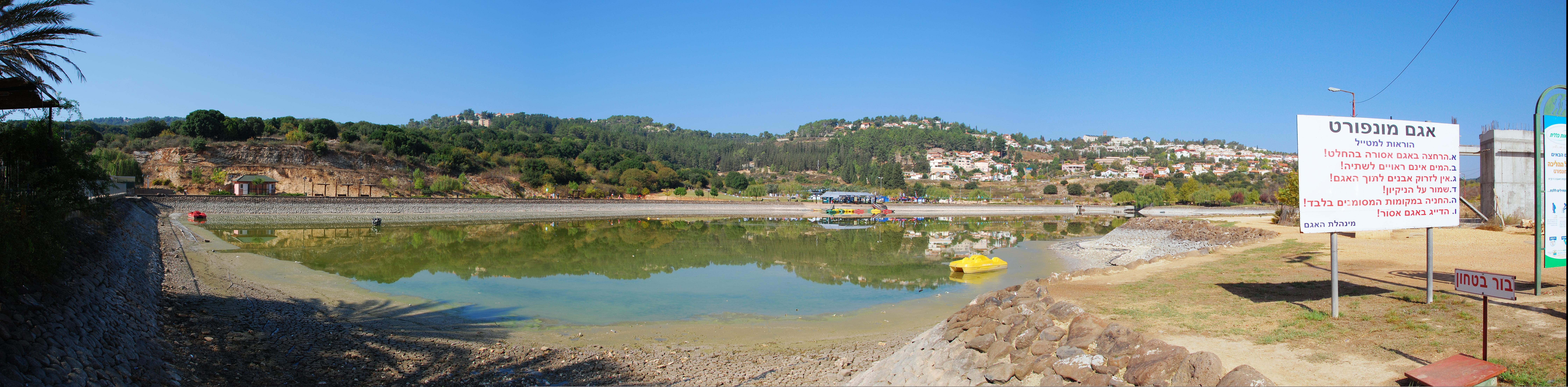 Maalot Tarshiha lake panorama